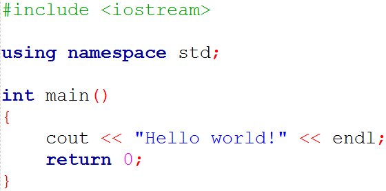 Hello world program, written in C++, a programming language.